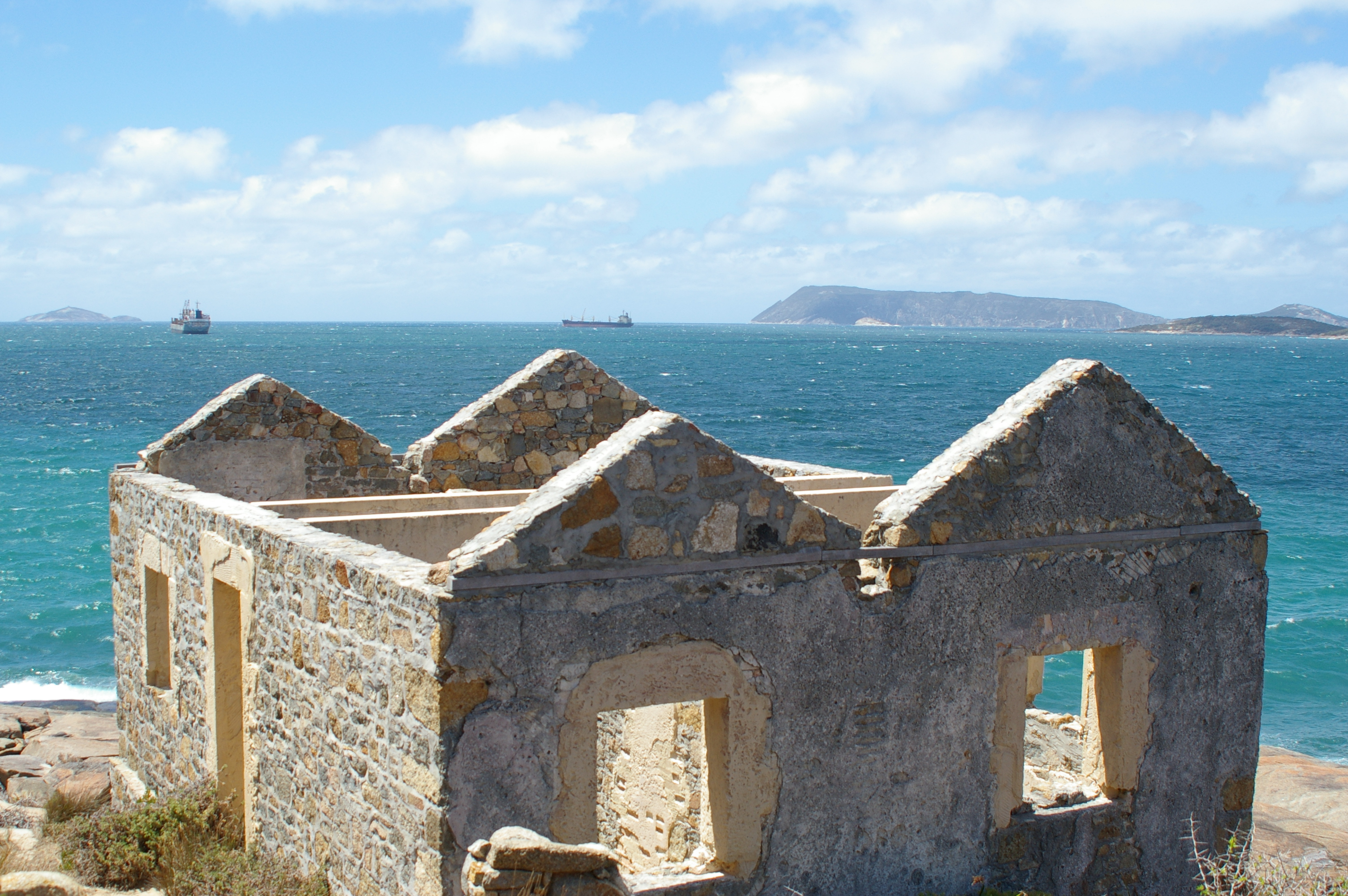 Photo of Point King at the enteranceto princess royal harbour and the port of albany